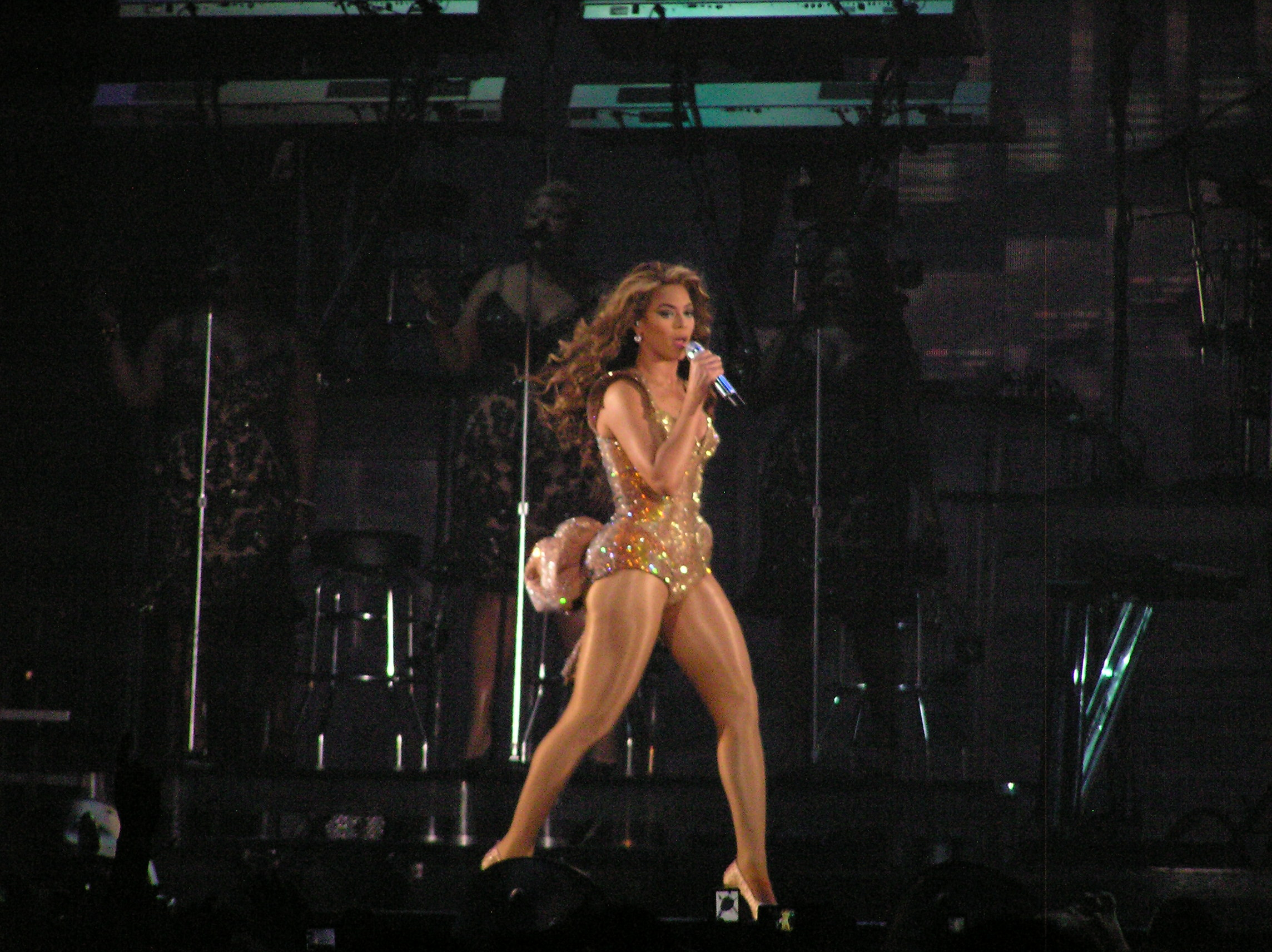 Beyoncé I Am... Tour Newcastle